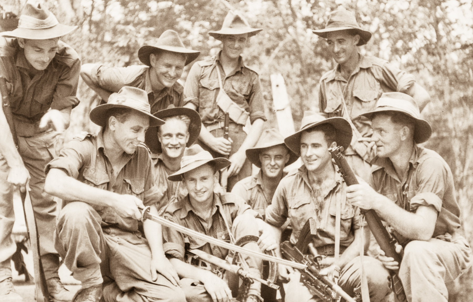 BEAUFORT, BORNEO. 1945-08-27. MEMBERS OF B COMPANY, 2/43RD INFANTRY BATTALION WHO HAVE JUST RETURNED FROM A PATROL IN THE AREA. IDENTIFIED PERSONNEL ARE: BACK ROW: LEFT TO RIGHT: SX19031 CORPORAL (CPL) J. M. BURT (MURRAY BRIDGE, SA); SX12481 CPL R. S. TEMPLE (ADELAIDE); VX108868 PRIVATE (PTE) J. R. MARR (HAMILTON, VIC); SX14834 PTE VERRALL (WILLUNGA, SA). FRONT ROW: CAPTAIN LANGFORD, OFFICER COMMANDING, B COMPANY; VX82337 PTE D. C. WASSELL (PRESTON, VIC); VX10749 PTE J. K. NEEDS (INGLEWOOD, VIC); QX28335 PTE F. MILLER (OAKEY, QLD); WX11519 PTE STARCEVICH (NORSEMAN, WA); VX136419 PTE S. J. BEGG.n AMW Collection 114895